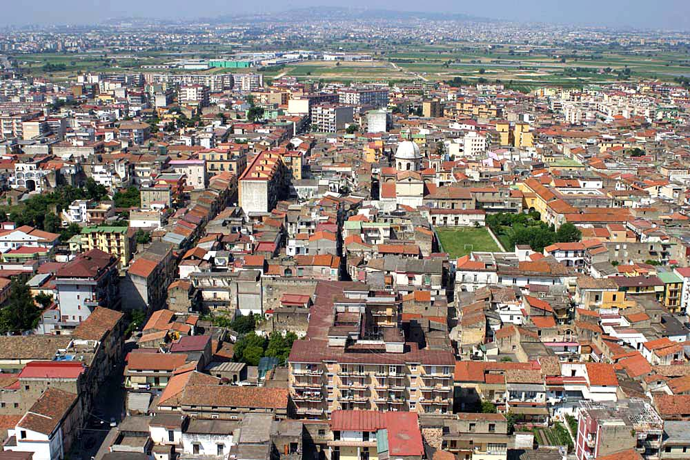 Panoramic view of Acerra, Napoli, Italy